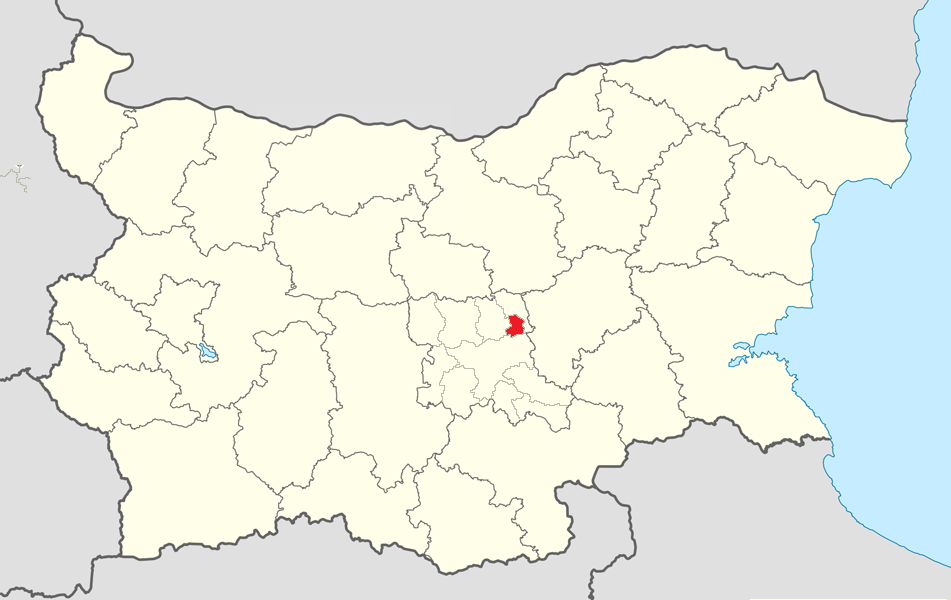 Location map of Nikolaevo Municipality within Bulgaria and Stara Zagora Province